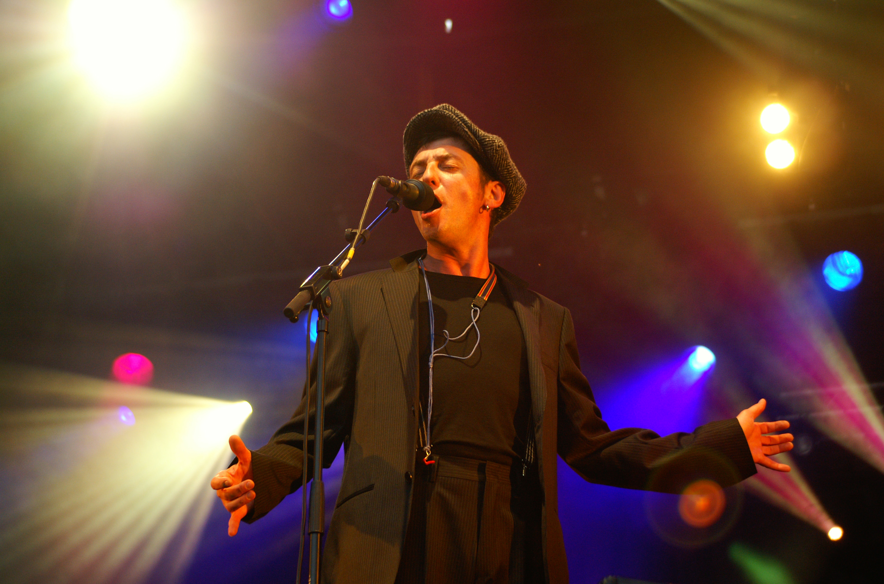 Yves Jamait live at Aux Zarbs festival (Auxerre, France).